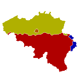 Flemish Community (yellow), French Community of Belgium (red), German-speaking community of Belgium (blue)